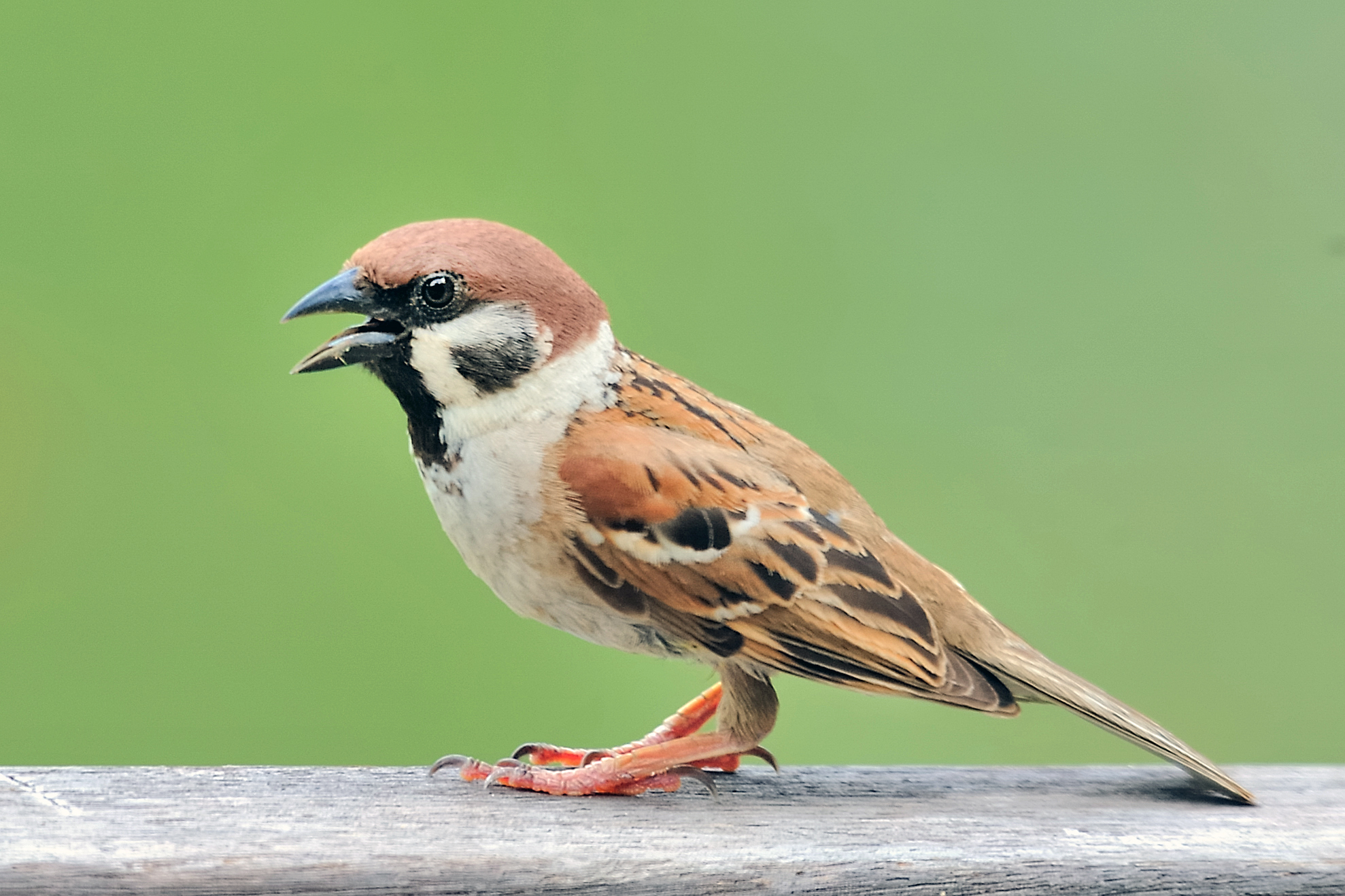 A Eurasian Tree Sparrow (Passer montanus) on a fencepost.